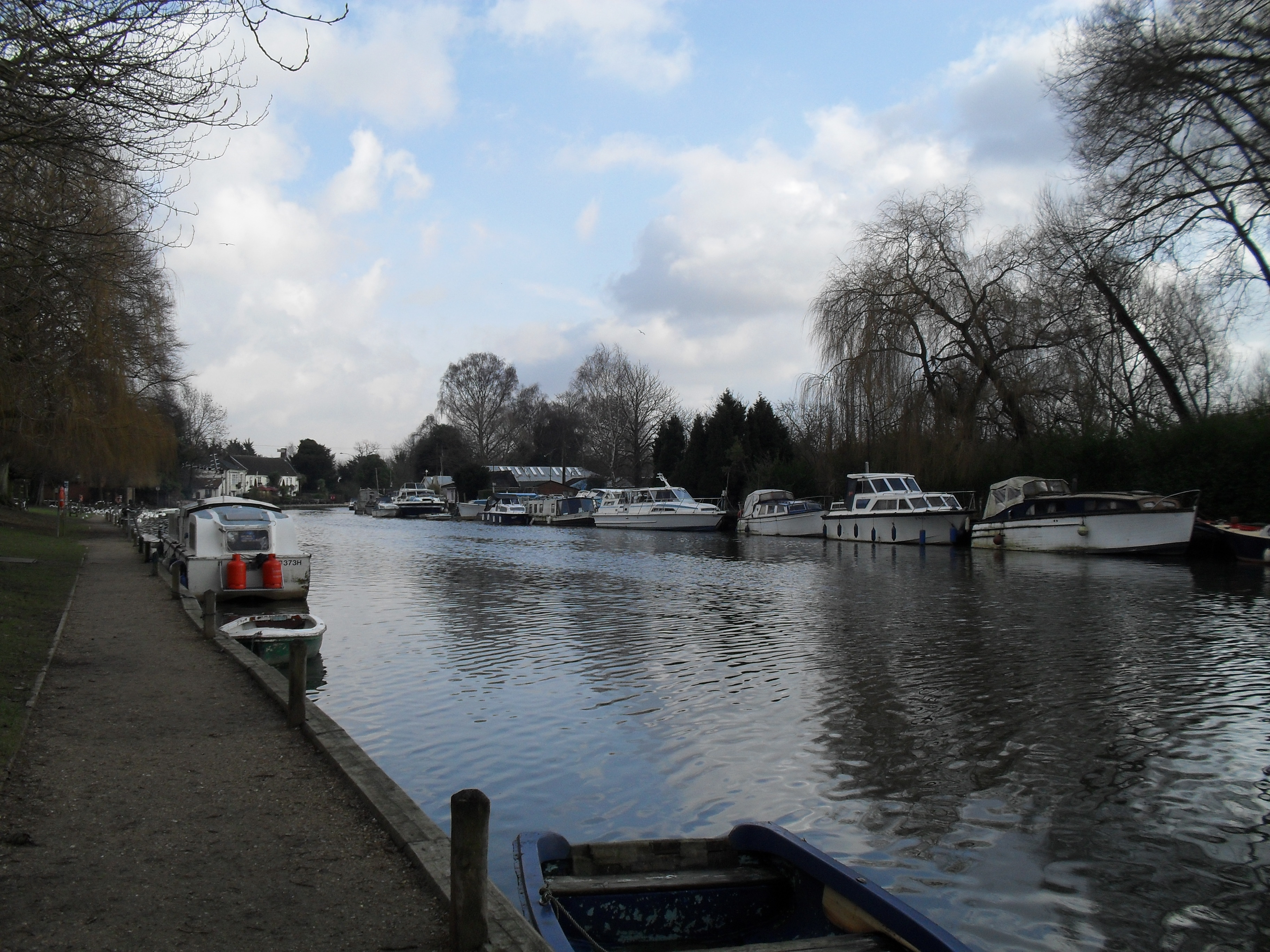 Author Beth Self. The River Yare at Thorpe Green, Norwich.